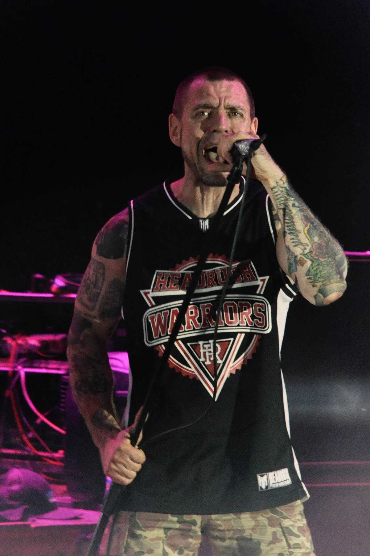 Lyapis Trubetskoy, Siarhiej Michałok. Concert at Chernihiv, 2014